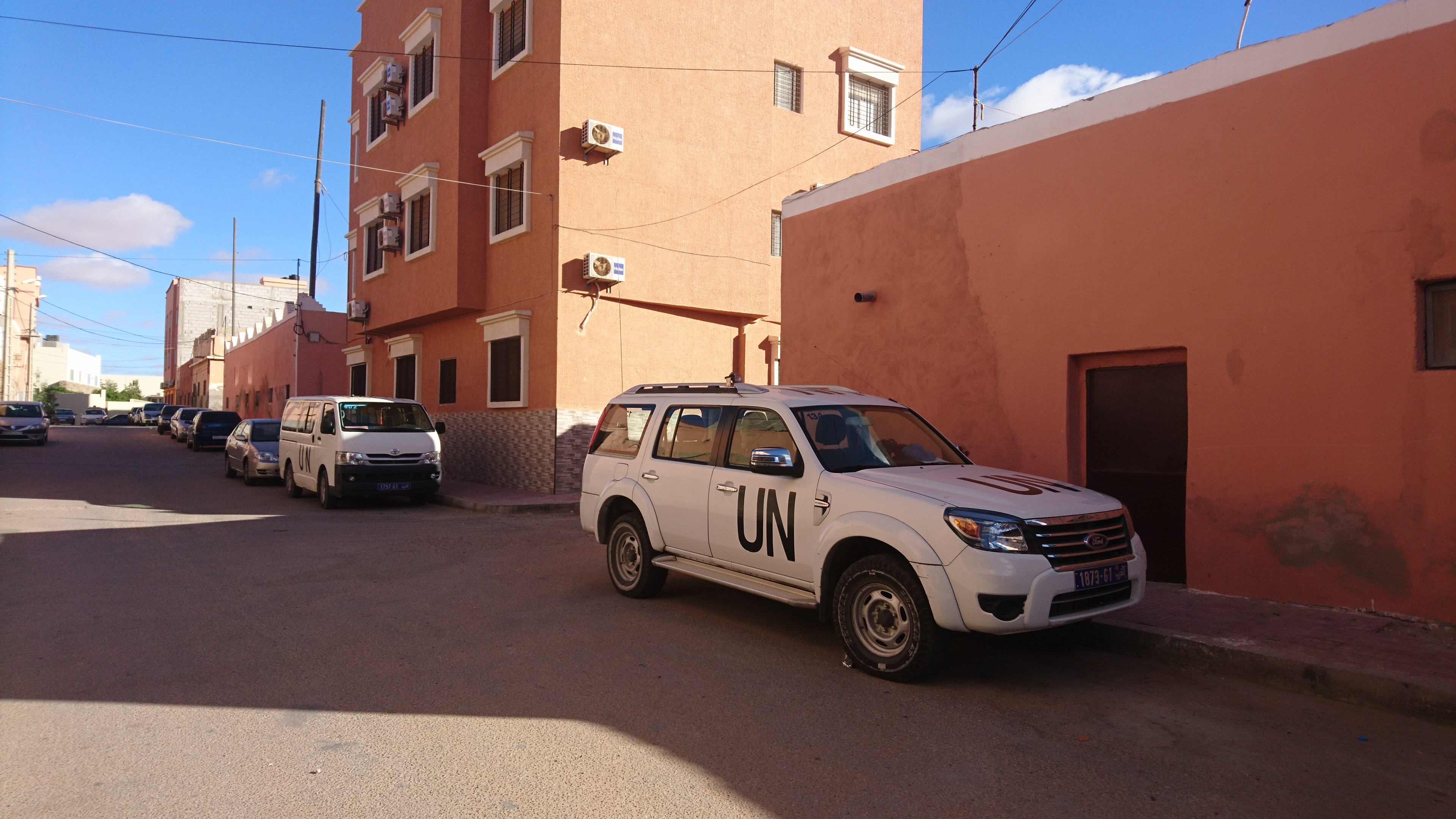 MINURSO cars in El Ayun